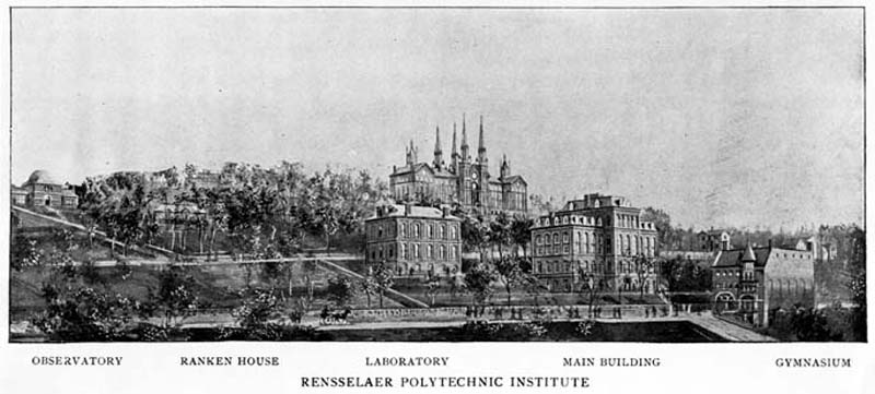 View of Rensselaer Polytechnic Institute hill in 1896. The large byzantine building of Troy University can be seen at the top of the hill. The structure was later acquired by RPI, and demolished because of safety concerns. The only structure still remaining is the Winslow Laboratory, labeled Laboratory in this picture.